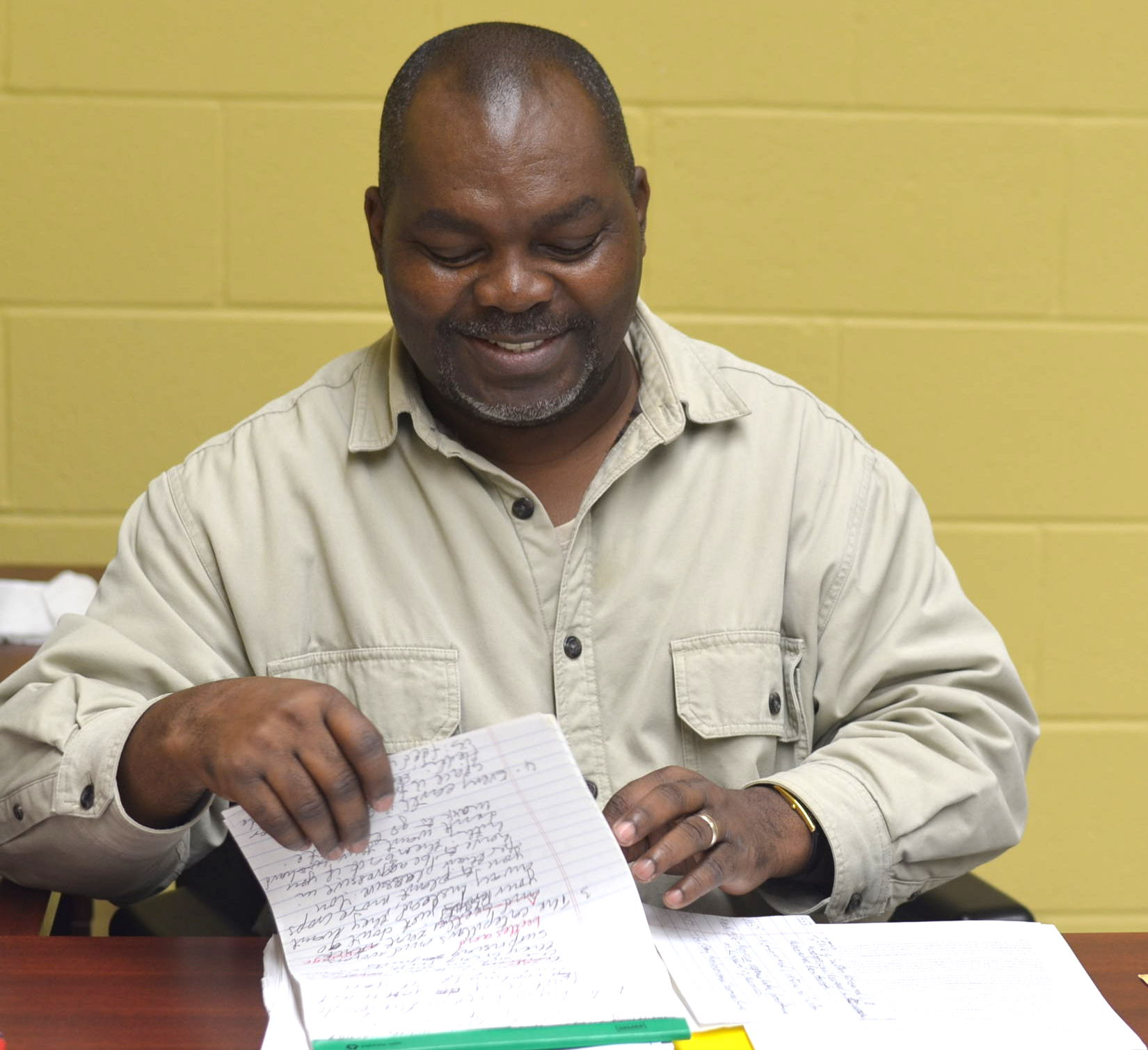 Taken at CSU in 2015